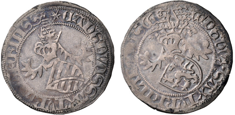 GERMANY, Sachsen (Kurfürstentum und Herzogtum). Ernst, with Albrecht and Wilhelm III. 1465-1482. AR Horngroschen (28mm, 2.64 g, 6h). Leipzig mint. Dated (14)66. Coat-of-arms surmounted by crested helmet left / Coat-of-arms surmounted by crested helmet left. Levinson I-103a. VF, toned.